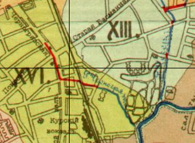 Chernogryazka river in Moscow on a 1912 map